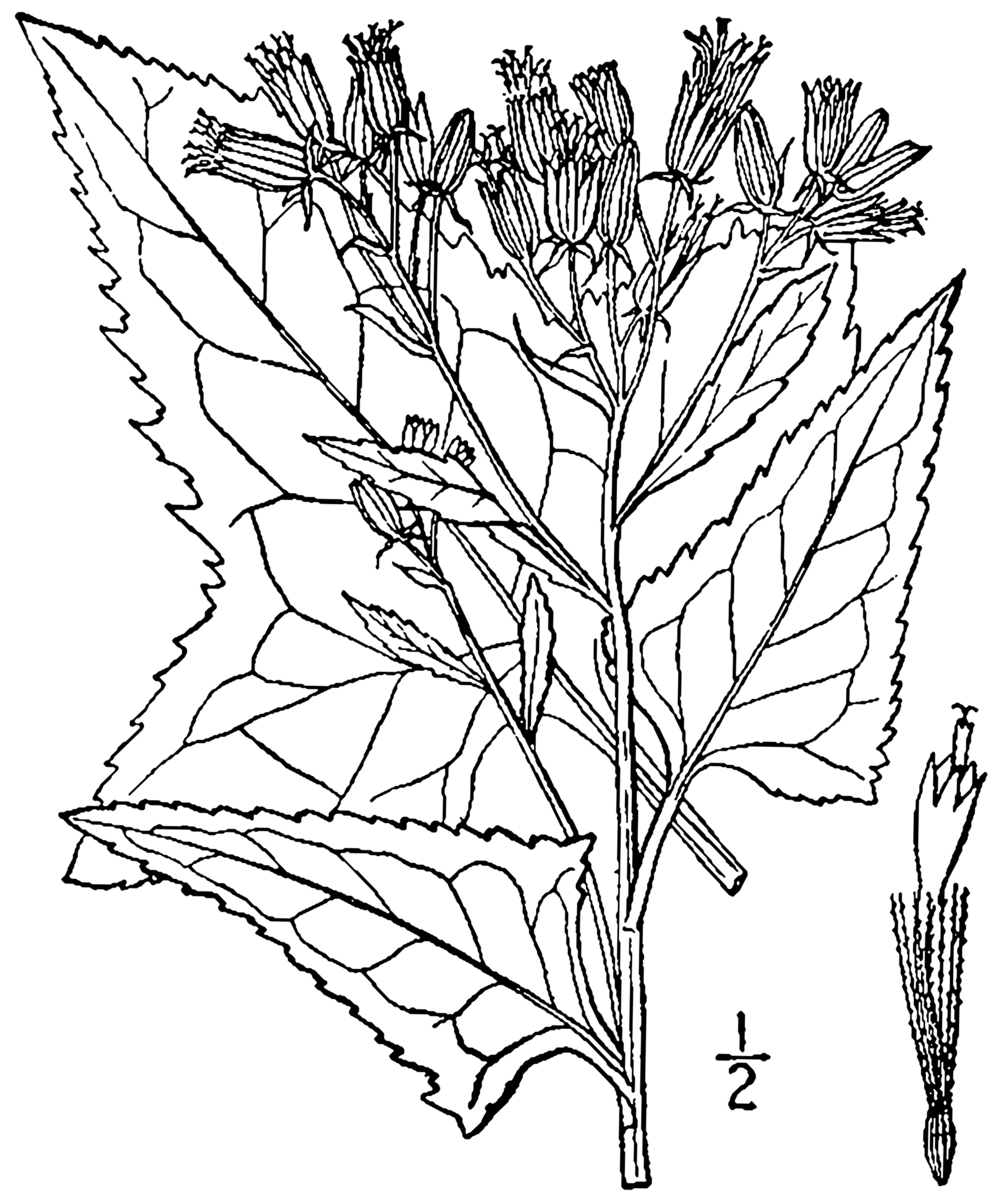 Senecio suaveolens (L.) Elliott (1823) (syn. Hasteola suaveolens (L.) Pojark.) - false Indian plantain